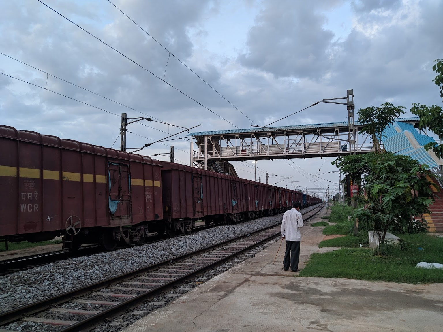 This is the Picture of Jagannathapur railway station